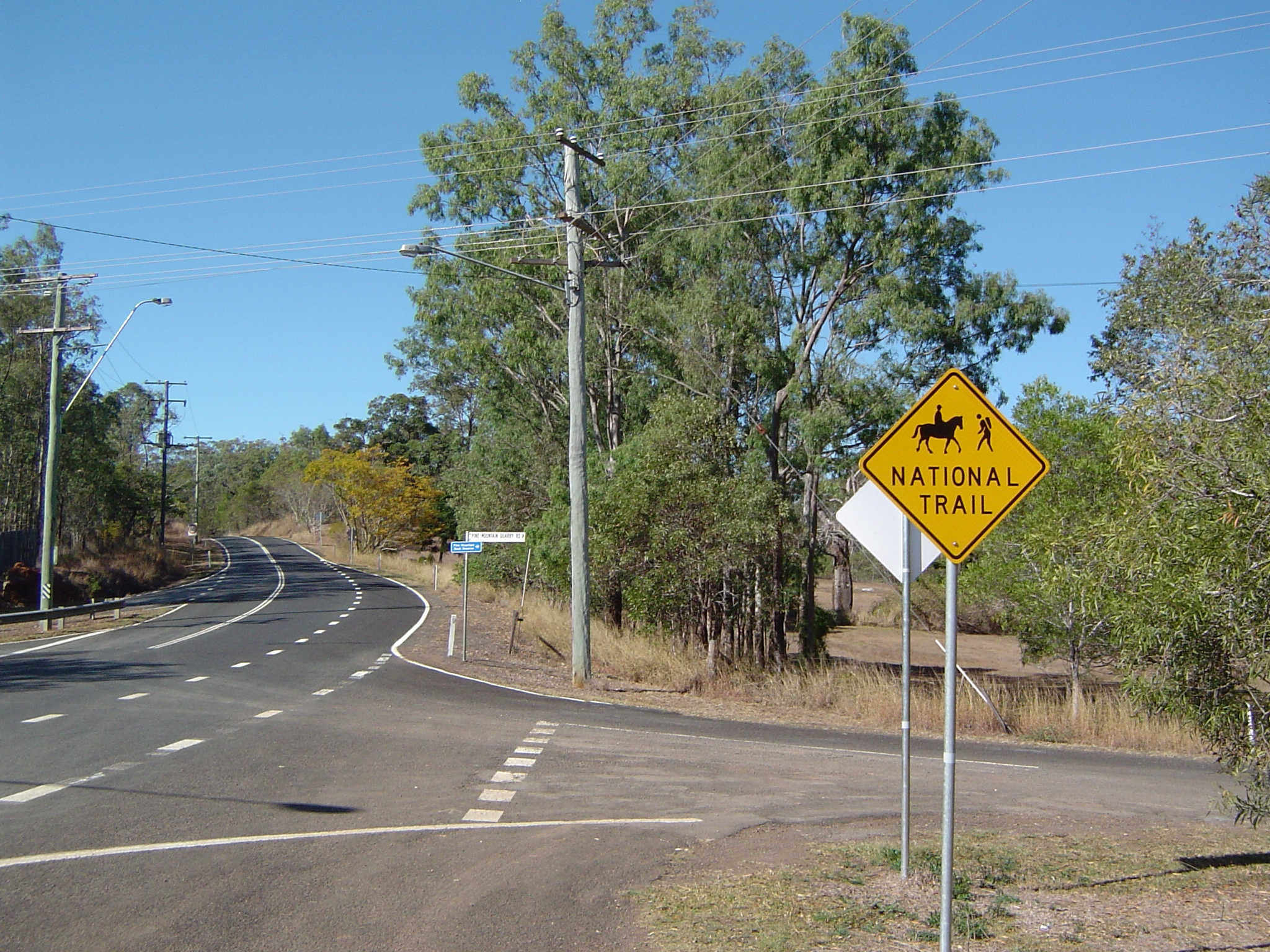 Photo of Pine Mountain Road and Bicentennial National Trail at Pine Mountain, City of Ipswich, Queensland, Australia.